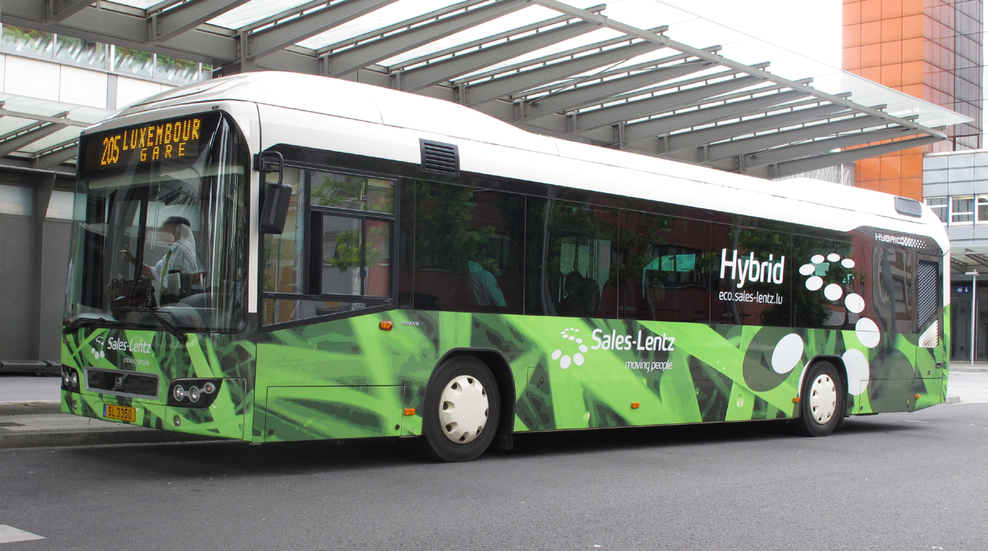 RGTR-Bus (Volvo) of the line 205 at the bus station in Esch-Alzette, Luxembourg